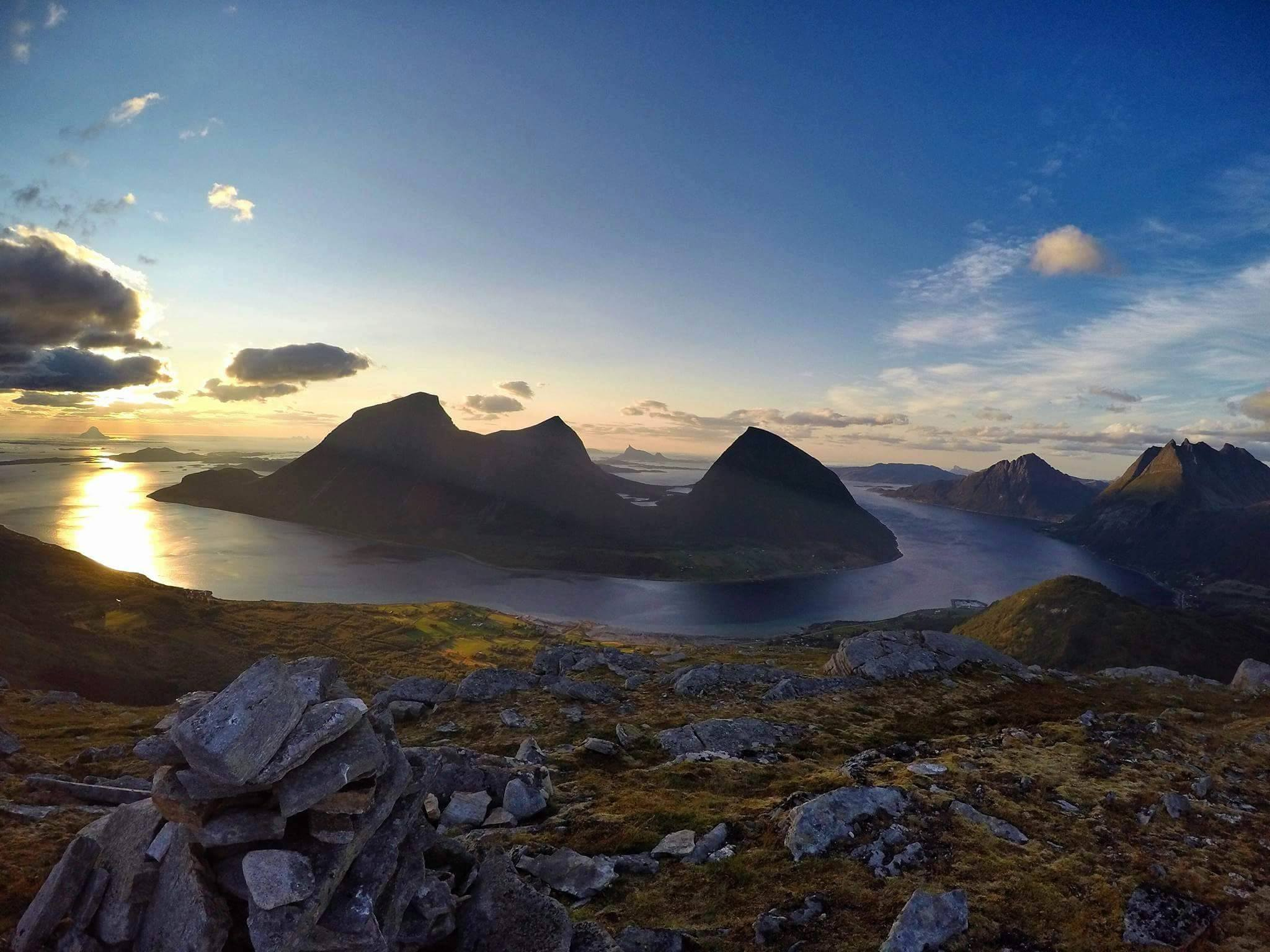 A photo taken in Helgelandskysten, Norway